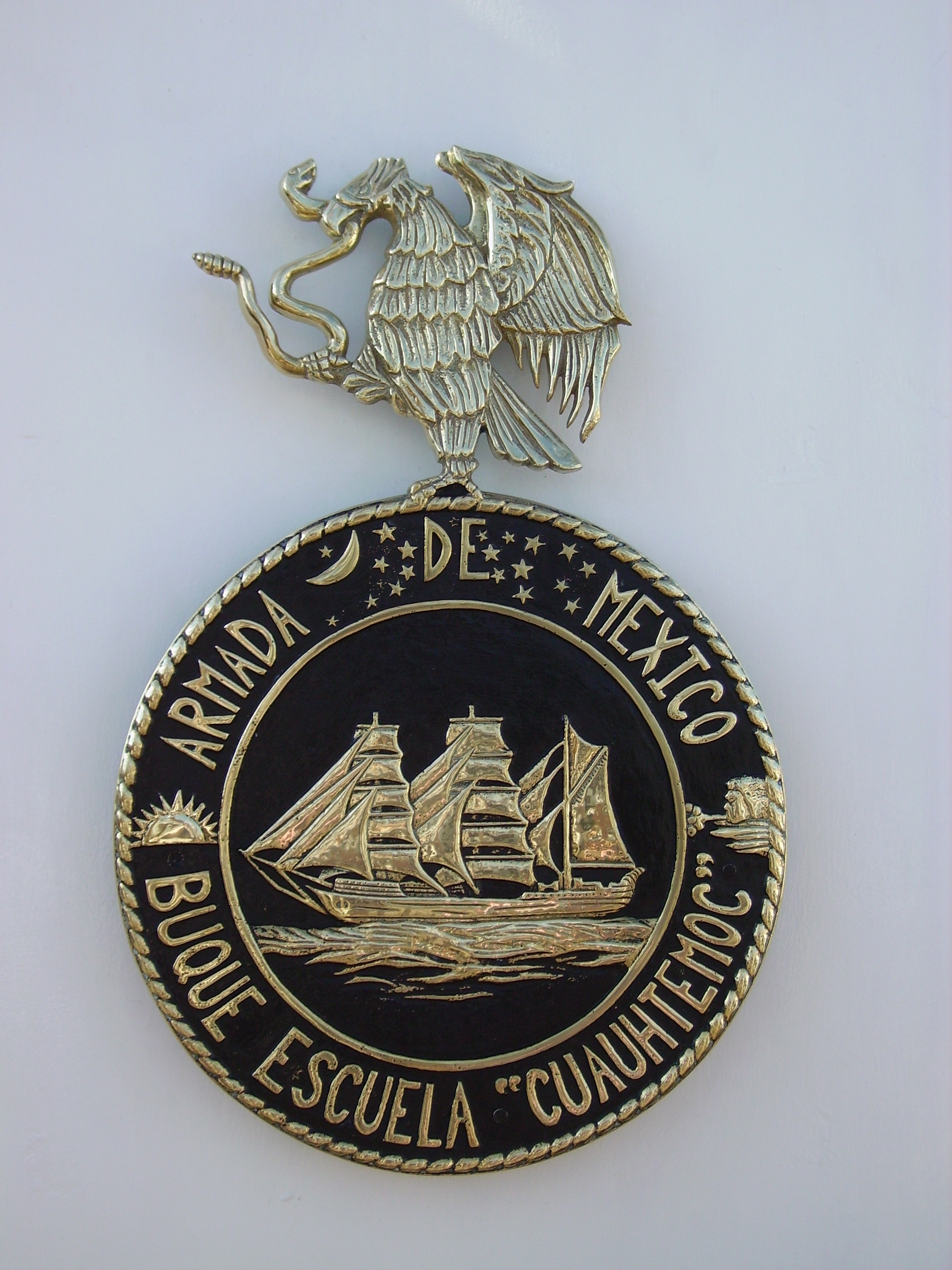 The coat of arms of the Cuauhtémoc, a sail training vessel of the Mexican Navy